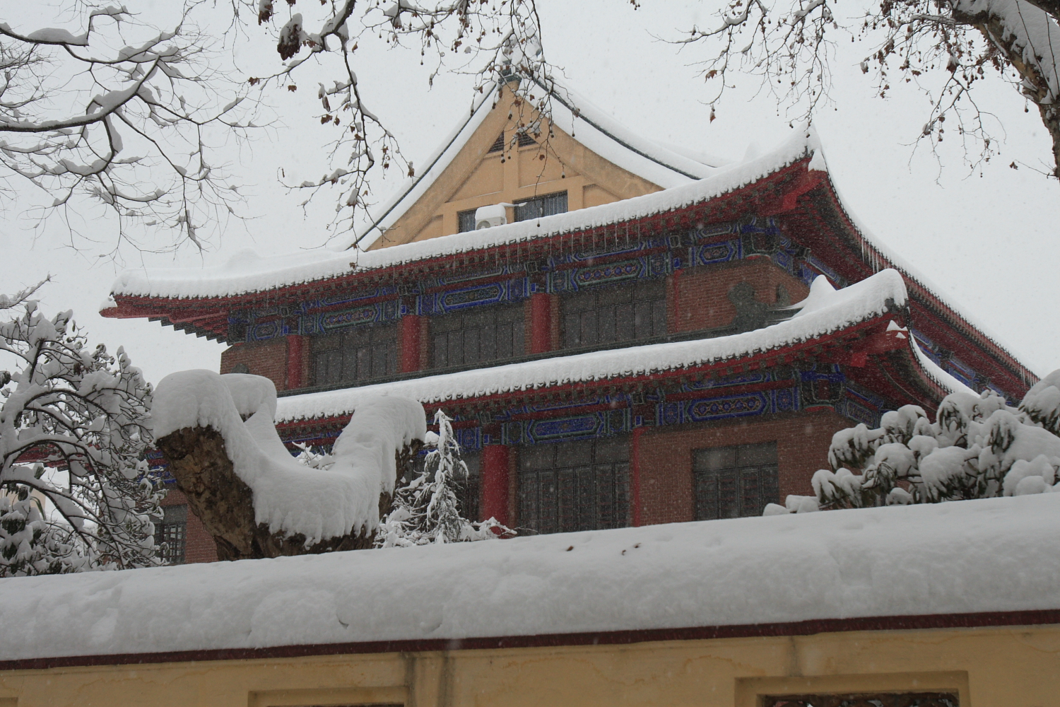 Nanjing Political College 中文（中国大陆）: 南京政治学院，南京08年大雪中